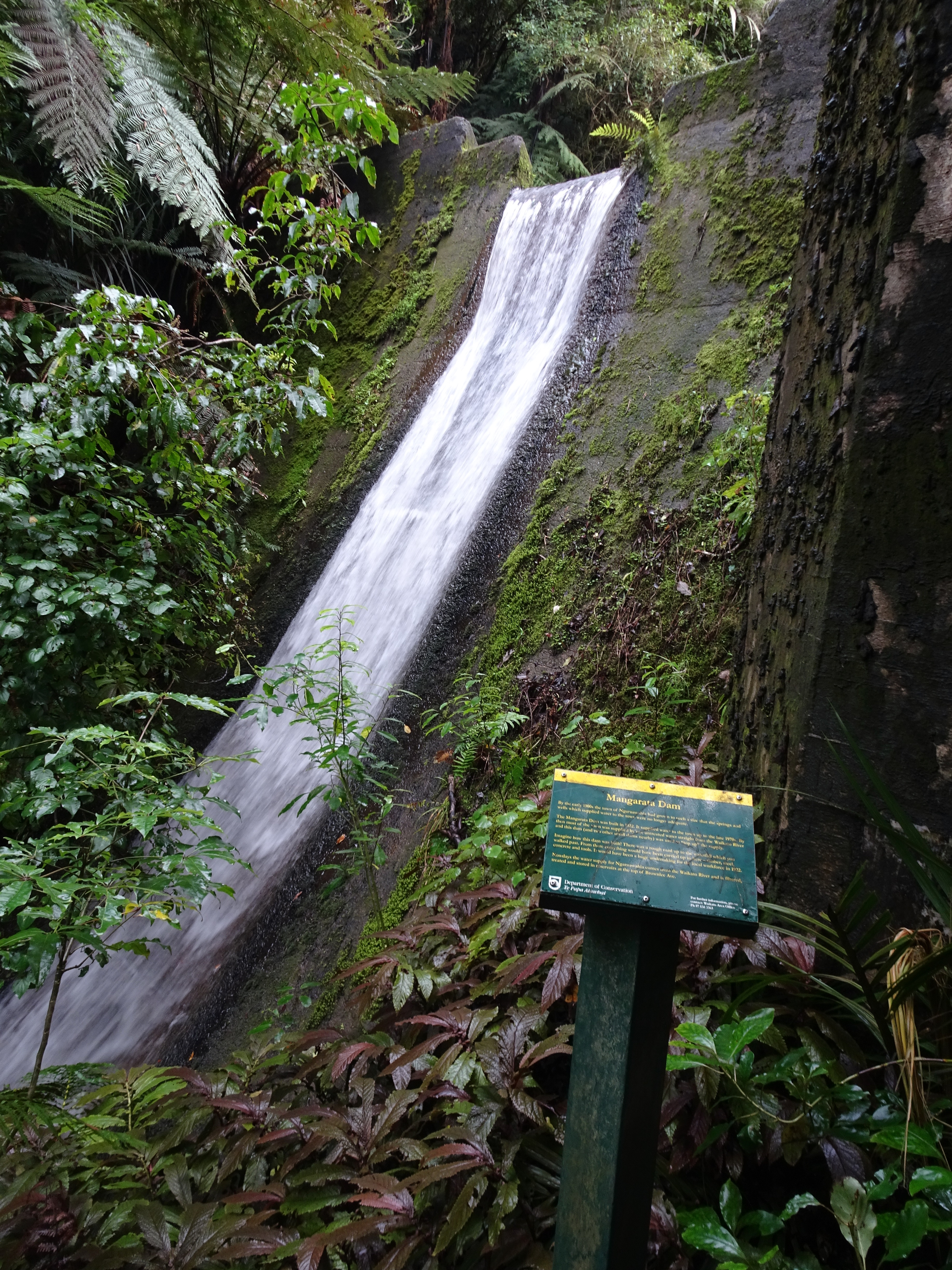 Mangarata Reservoir spillway